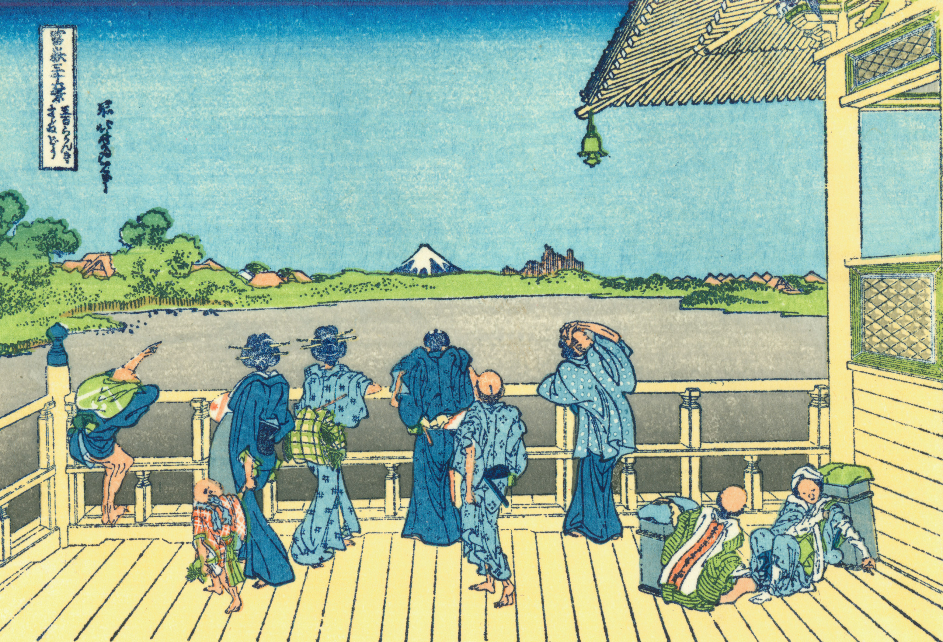 Part of the series Thirty-six Views of Mount Fuji, no. 07.